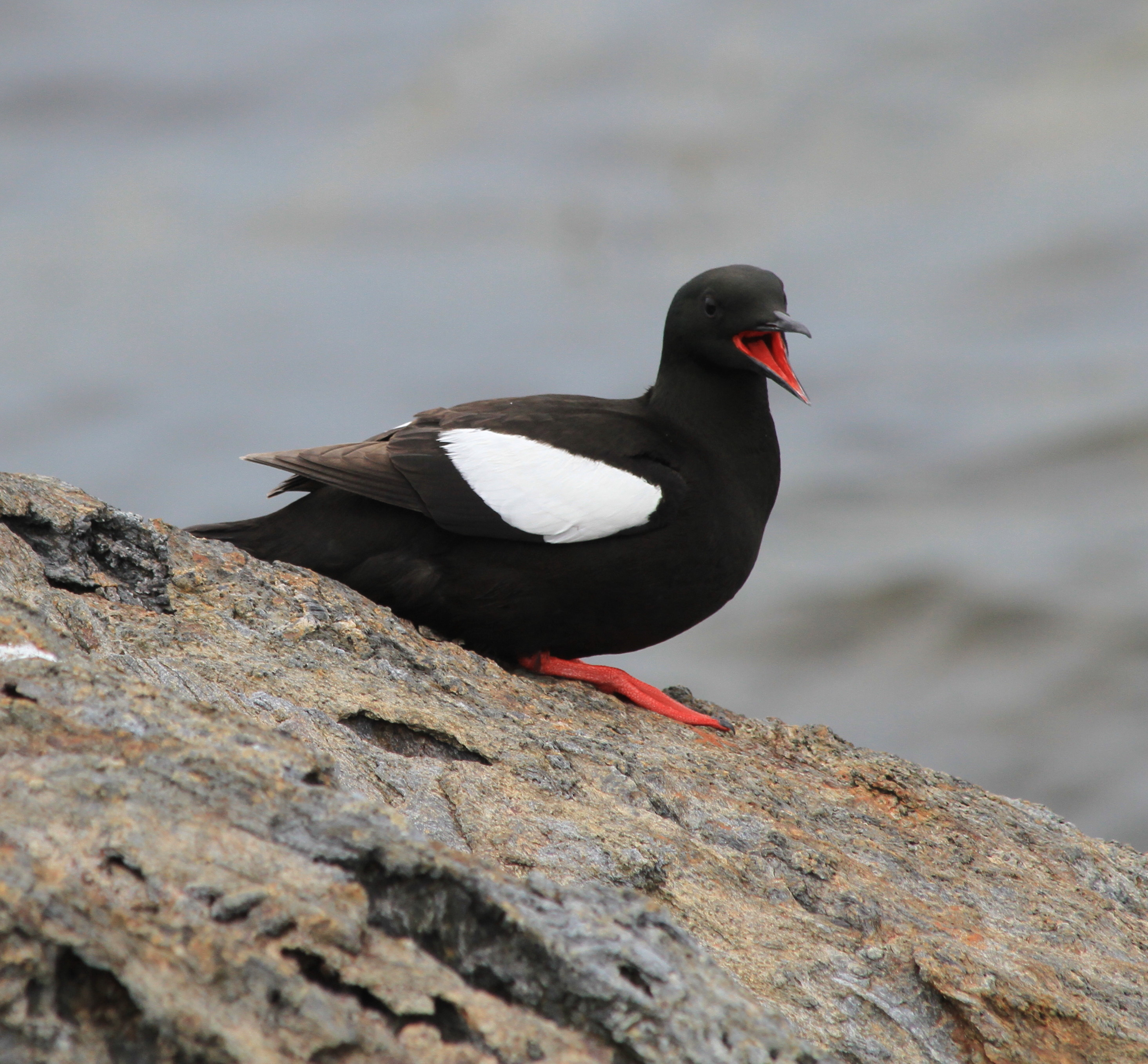 A Black Guillemot on Metinic Island, Maine, USA.